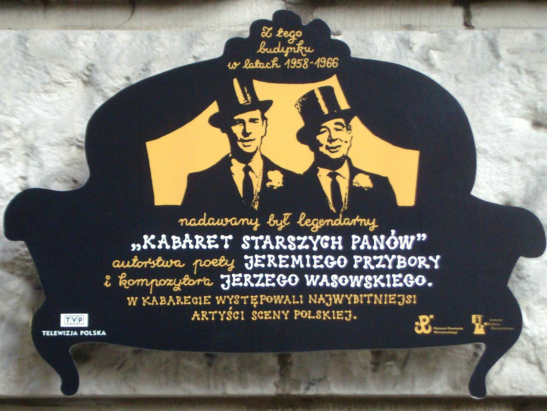 Memorial plate for Jeremi Przybora and Jerzy Wasowski on the public Polish TV building in Warsaw